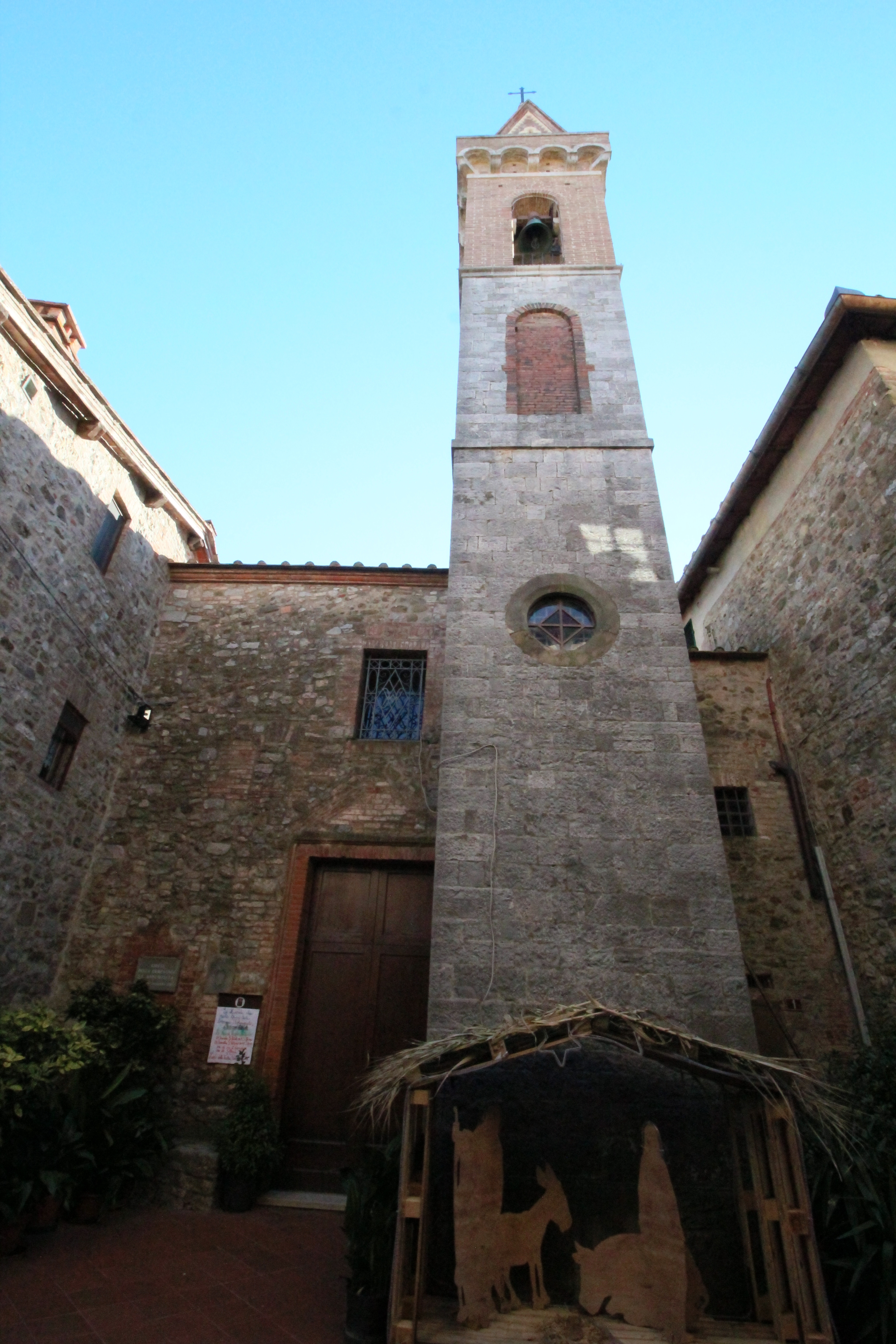 Church Santissima Annunziata (Chiesa della Compagnia della Santissima Annunziata), San Gusmè, hamlet of Castelnuovo Berardenga, Province of Siena, Tuscany, Italy.